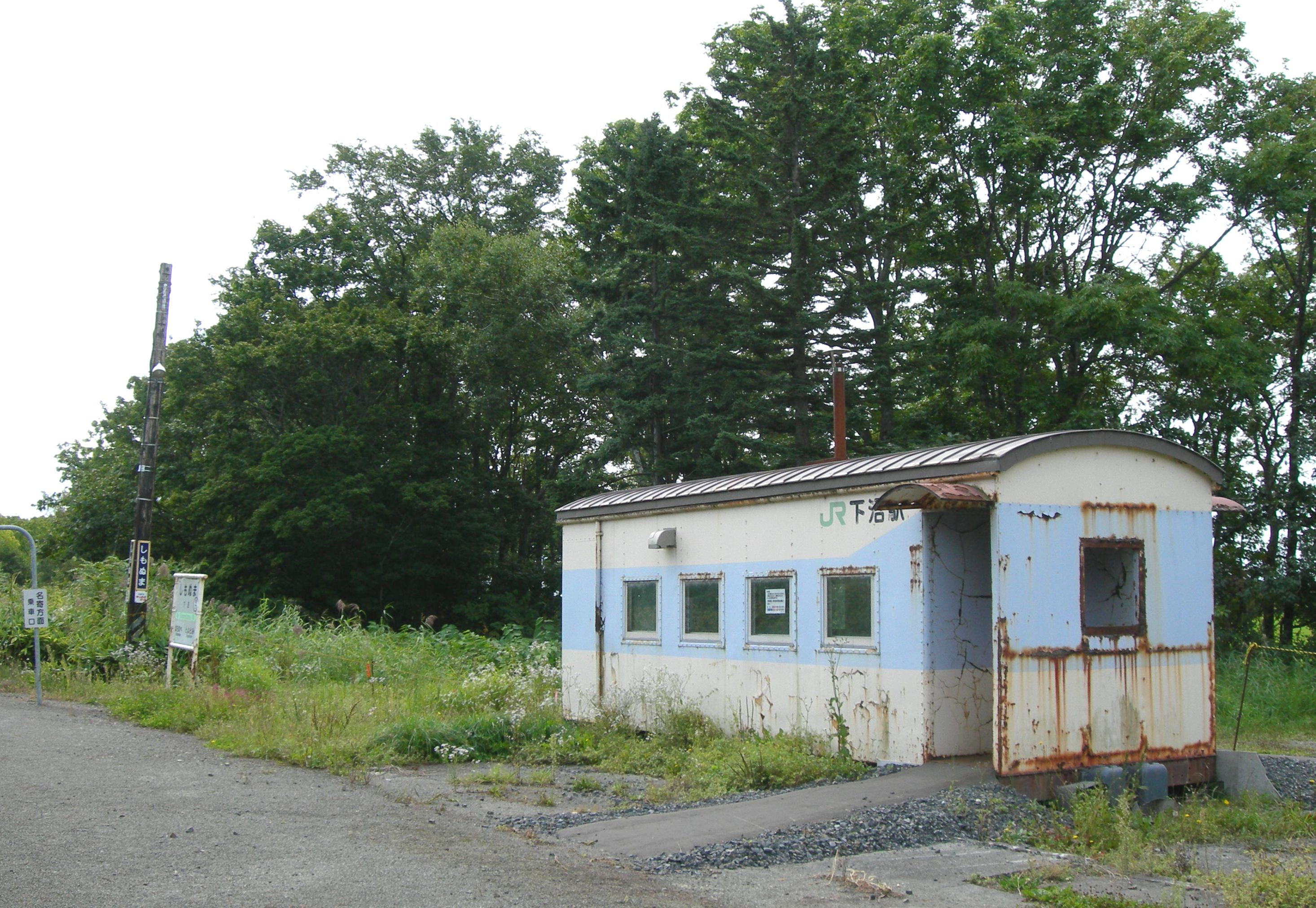 The station shelter and platform at Shimonuma Station on the Soya Main Line in Hokkaido, Japan